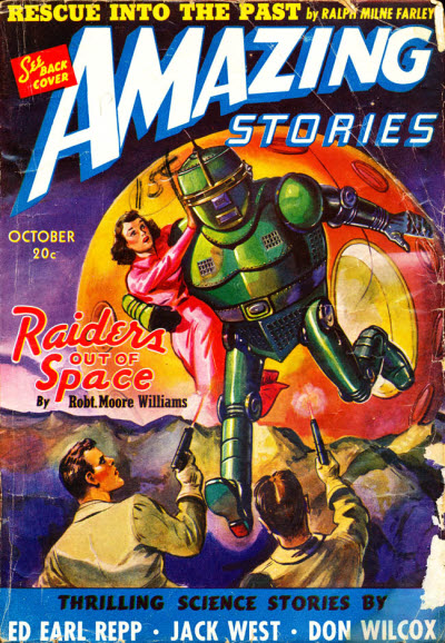 Cover of Amazing Stories, October 1940